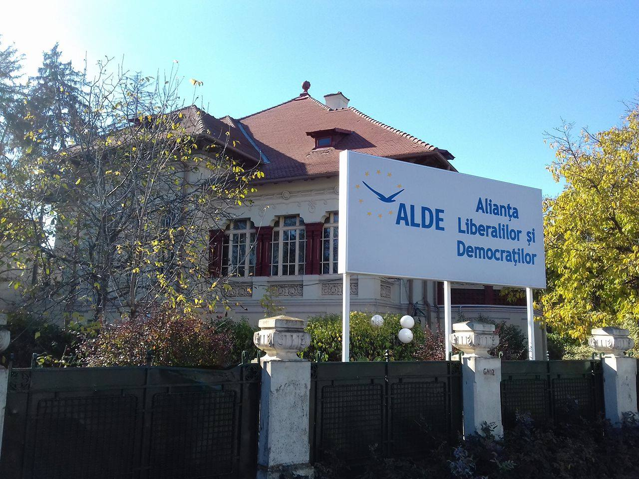 Alliance of Liberals and Democrats (Romania) Party headquarter